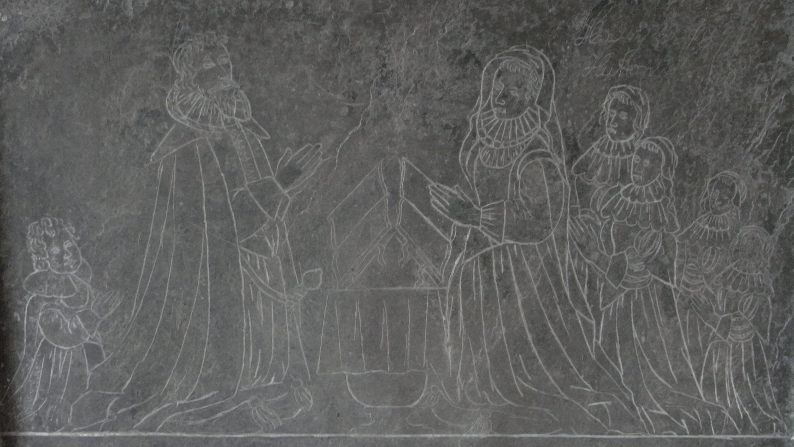 An etched stone mural monument to Nathaniel Still (died 2 February 1635) of Hutton, Somerset, England, UK, high on west wall of south aisle in the parish church of Saint Mary the Virgin, Hutton. The deceased was the first husband of Jane Whitmore (1587–1639) (pictured on the monument) who married Henry Dennis (Feb 1594 – 26 June 1638), High Sheriff of Gloucestershire, after his death; and the son of John Still (c. 1543 – 26 February 1607/8), the Bishop of Bath and Wells. The inscription on the monument reads: "In memory of Nathanill Still of this parrish Esq., who dyed the second day of February Anno Domini 1626. Not that he needeth monuments of stone for his well-gotten fame to rest uppon but this was reard to testifie that hee lives in theire loves ye yet surviving for unto vertu who first raised his name hee left the preservation of the same and to posterity remaine it shall when brass and marble monuments shall fall".